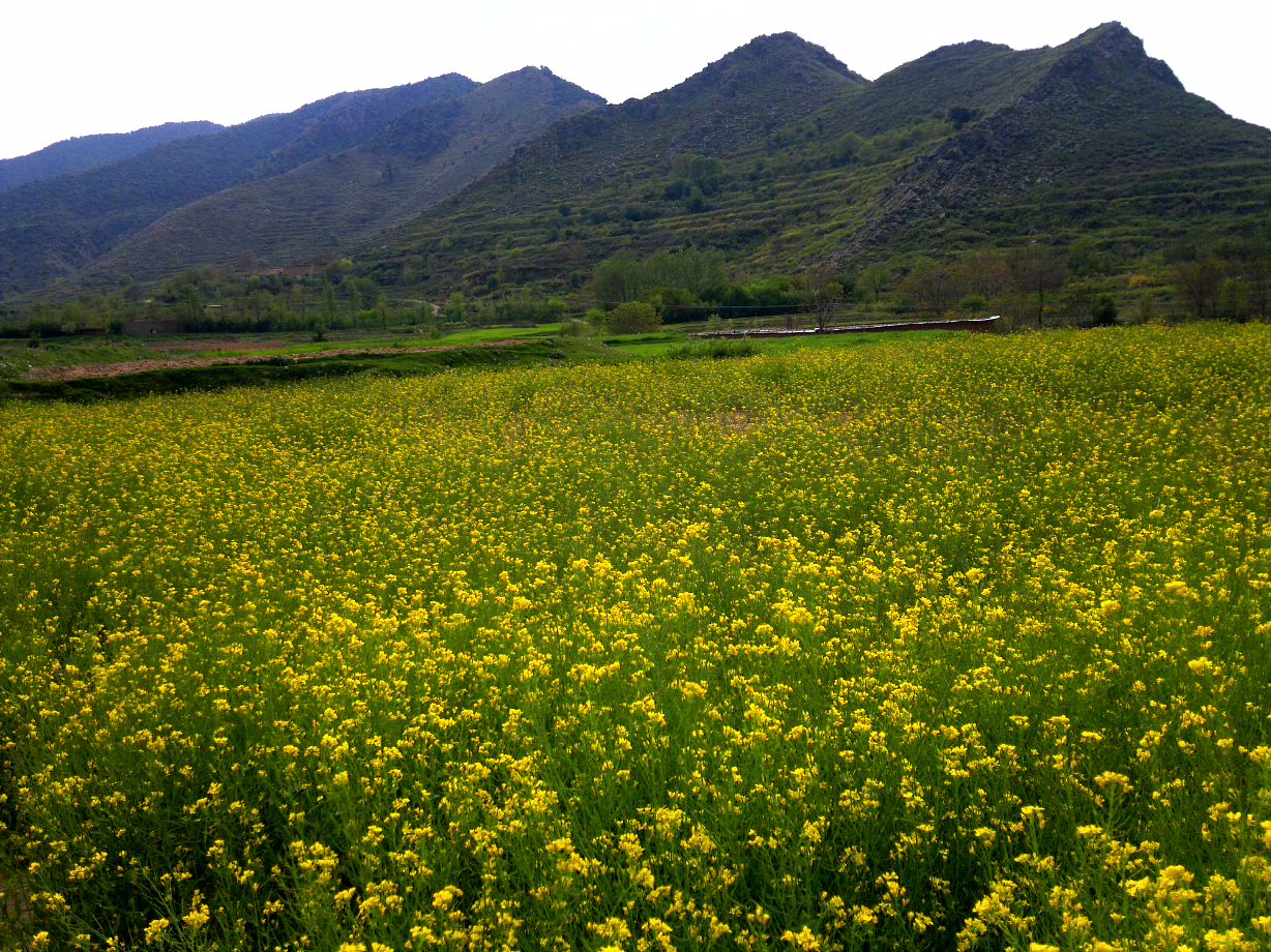 Mustard flowers in end of April